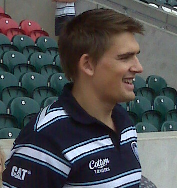 Toby Flood at Welford Road open day September 2009